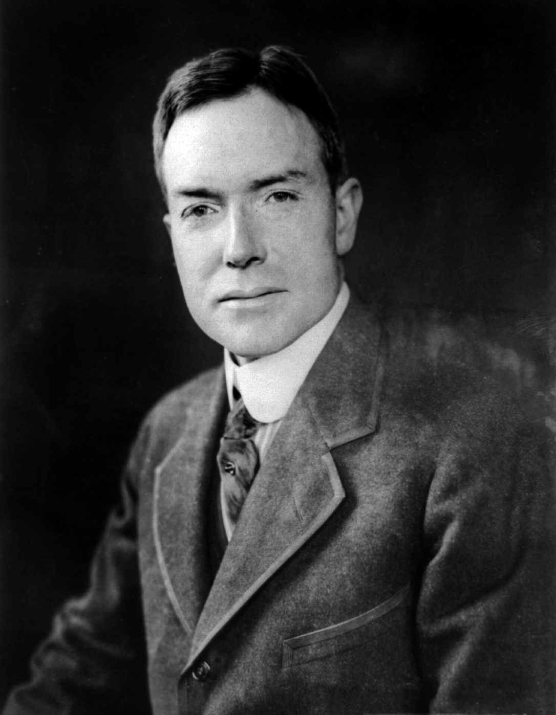 John D. Rockefeller, Jr., American philanthropist